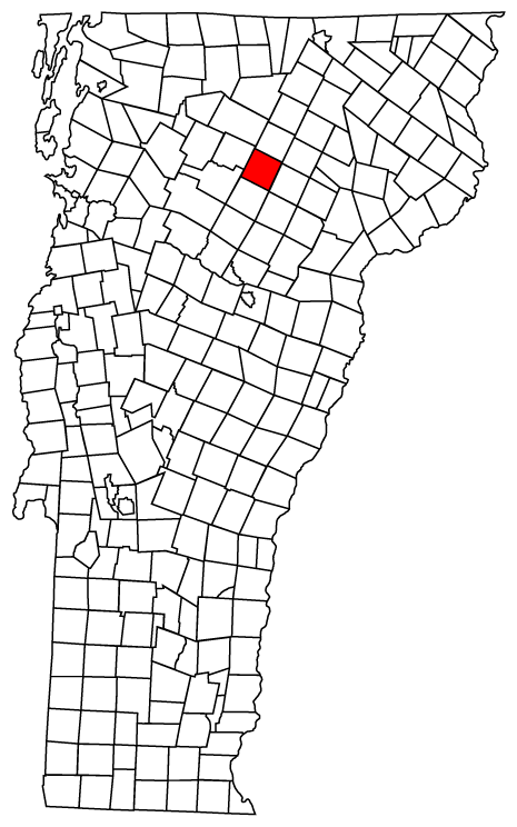 Description: Map of Vermont towns with Wolcott highlighted Source: Map created by Jared C. Benedict on 26 March 2004. Copyright: © Jared C. Benedict.